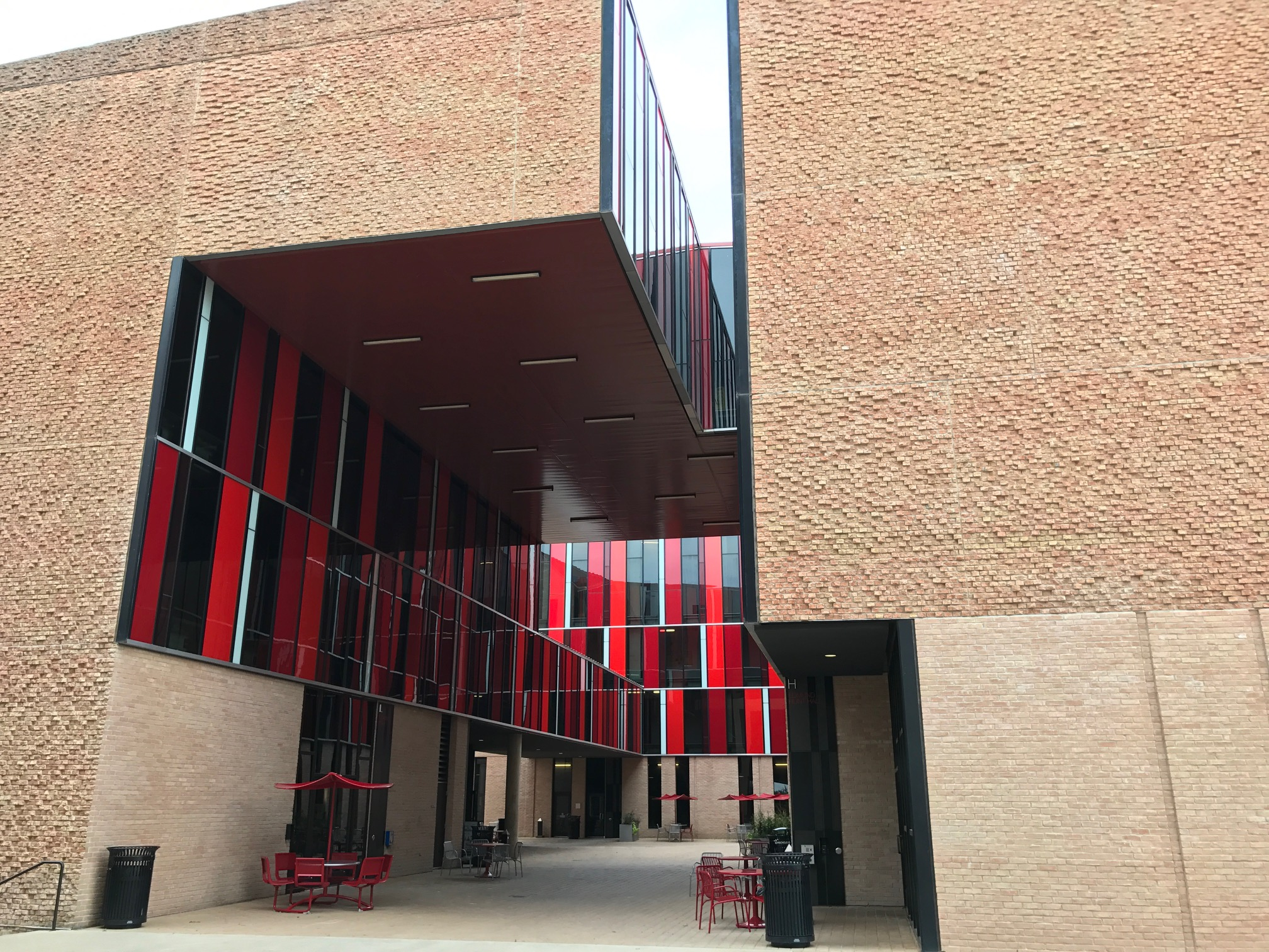 St Edward's University New Residence by Alejandro Aravena